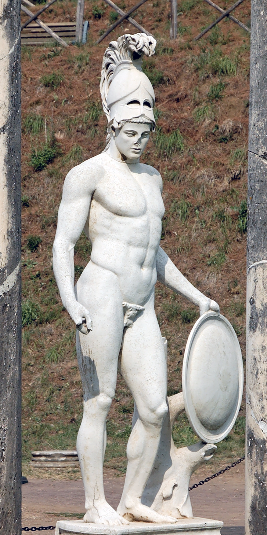 Helmeted young warrior, so-called Ares. Roman copy from a Greek original—this is a plaster replica, the original is now stored in the Museum of the Villa. Canope at the Villa Adriana in Tivoli.